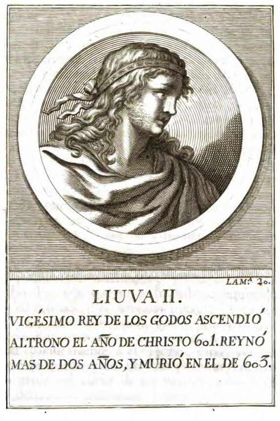 A poster of LIUVA II, Visigoth king, n° 20 in the chronological order of the book digitalized by Google since the bookshop in the University of Oxford.